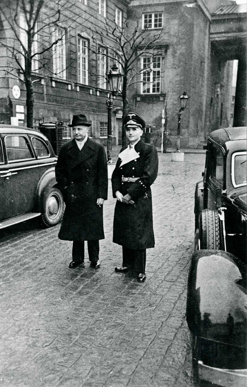 The photo shows Erik Scavenius Prime Minister of Denmark with Dr. Werner Best, German plenipotentiary in Denmark. Image dates from February 6th 1943 when Werner Best was introduced to the Danish crownprince after on Hitlers orders having ignored the Royal House for his first months in Denmark.